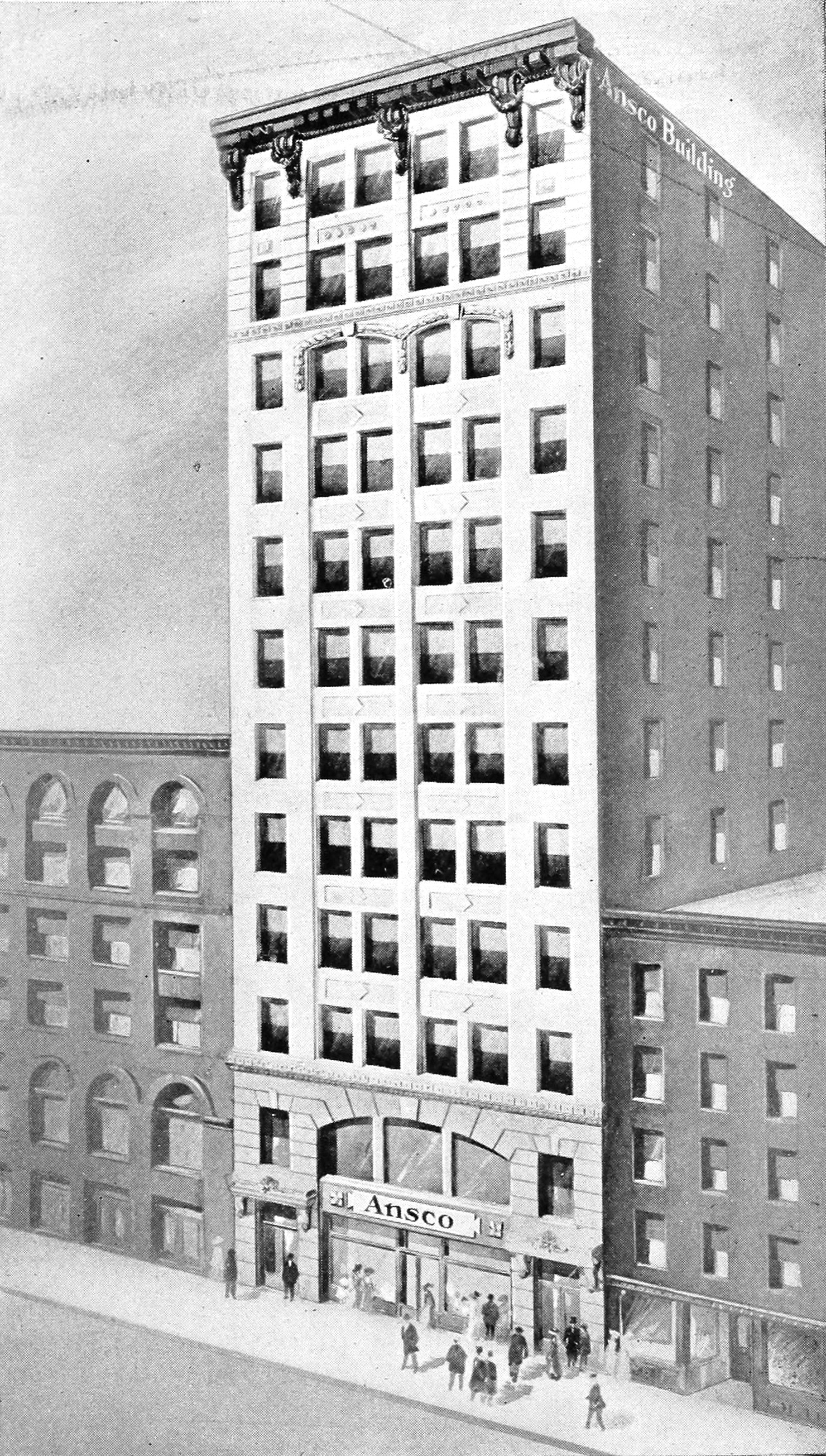 The Ansco Building in New York City, 1909. This building still stands at 129-131 West 22nd Street.